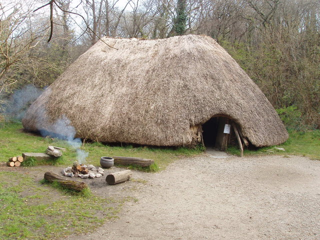 First Irish farmers hut, Irish National Heritage Park Around 4000 B.C. farmers came to Ireland and made permanent houses, raised livestock, grew cereals, and made pottery. In this exhibit in the Heritage Park a fire is lit on most days, some staff are in costumes of the various periods of Irish history, and on some days there are re-enactments of ancient life. Première cabane d'agriculteurs irlandais. Le parc national du patrimoine irlandais vers 4000 avant J.-C., les agriculteurs sont venus en Irlande et ont construit des maisons permanentes, élevaient du bétail, ont planté des céréales, et faisaient de la poterie. Dans cette exposition dans le parc du patrimoine, un feu est allumé la plupart du temps, certains membres du personnel sont en costumes des différentes périodes de l'histoire irlandaise, et, certains jours, il y a des reconstitutions de la vie antique.